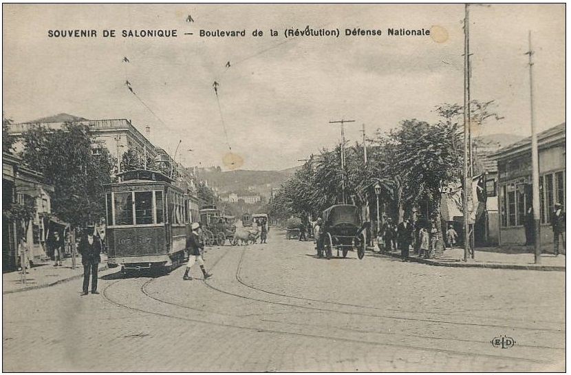 Revolution Boulevard in Salonica Postcard